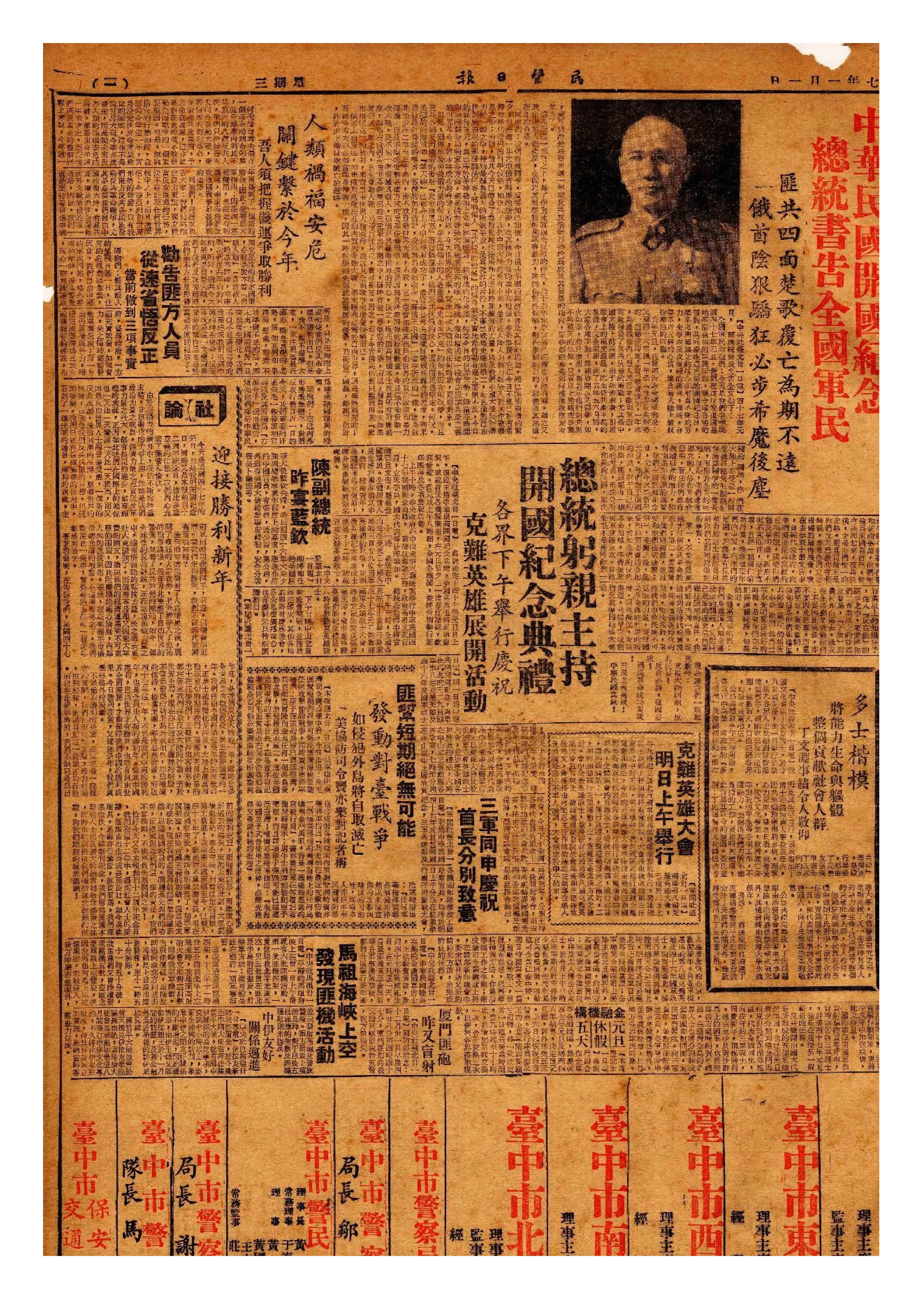 Old newspaper in Taiwan.